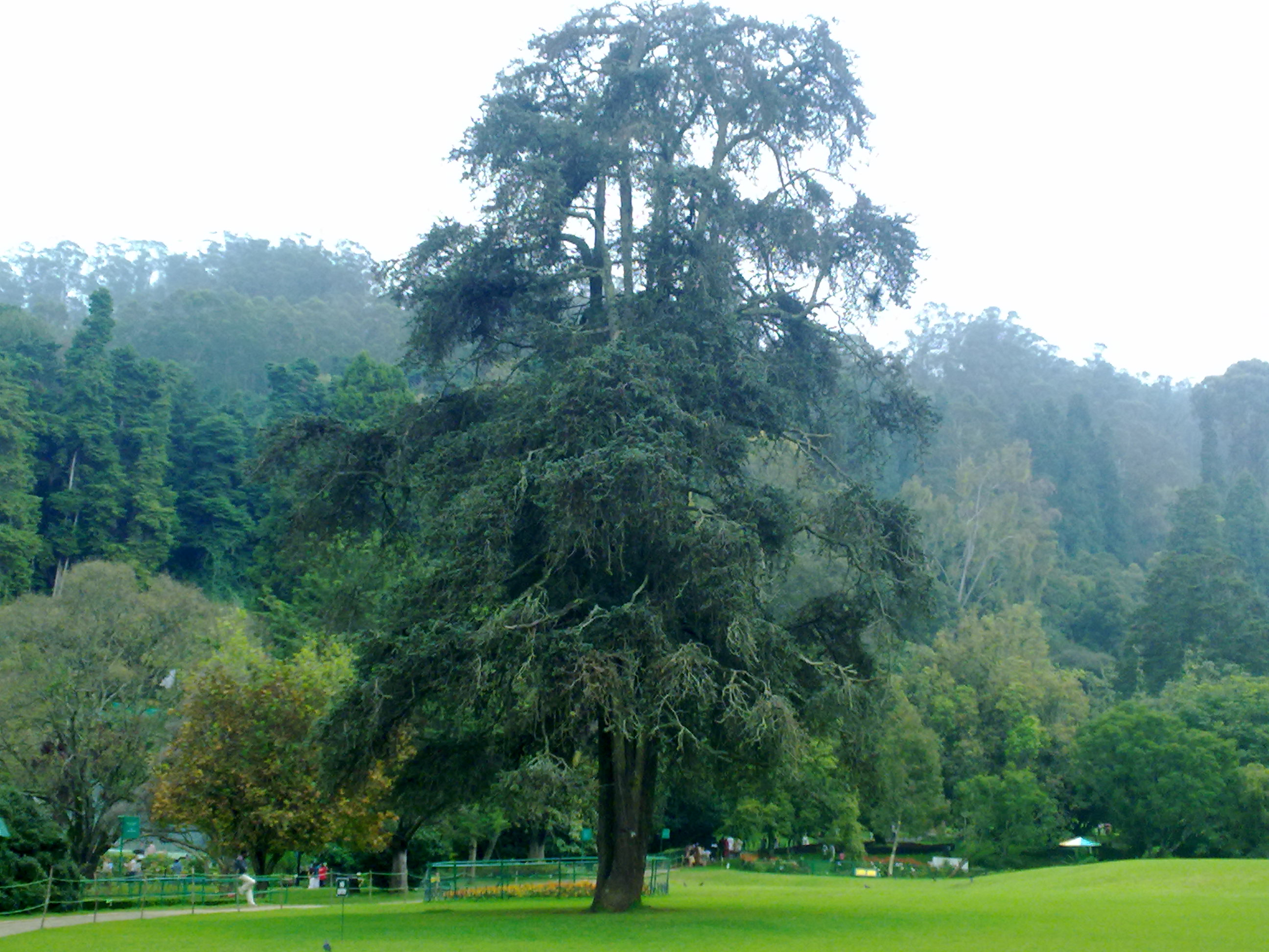 A view of botanical garden Ooty, Tamil Nadu, India.